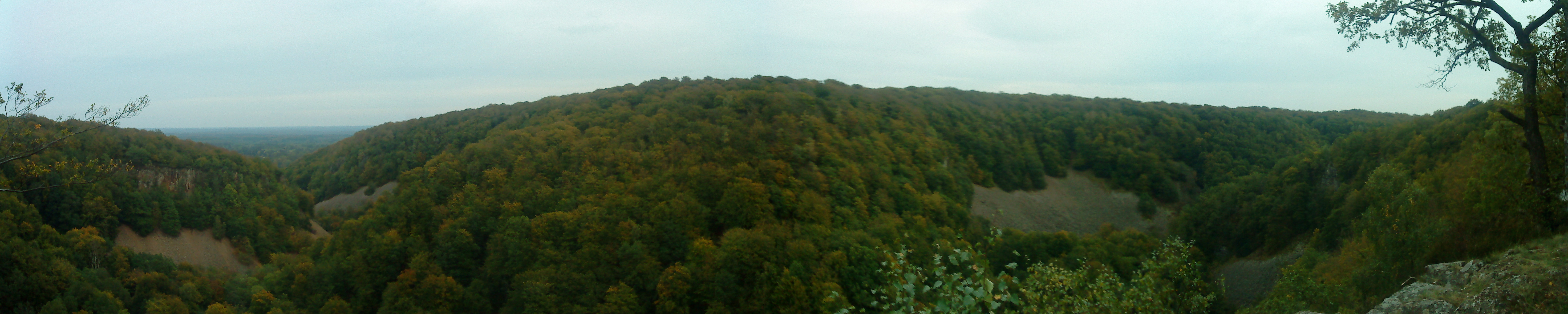 View from Kopparhatten, in Söderåsen National Park, Sweden. 4 photos taken October 2010, stitched together using MS ICE.